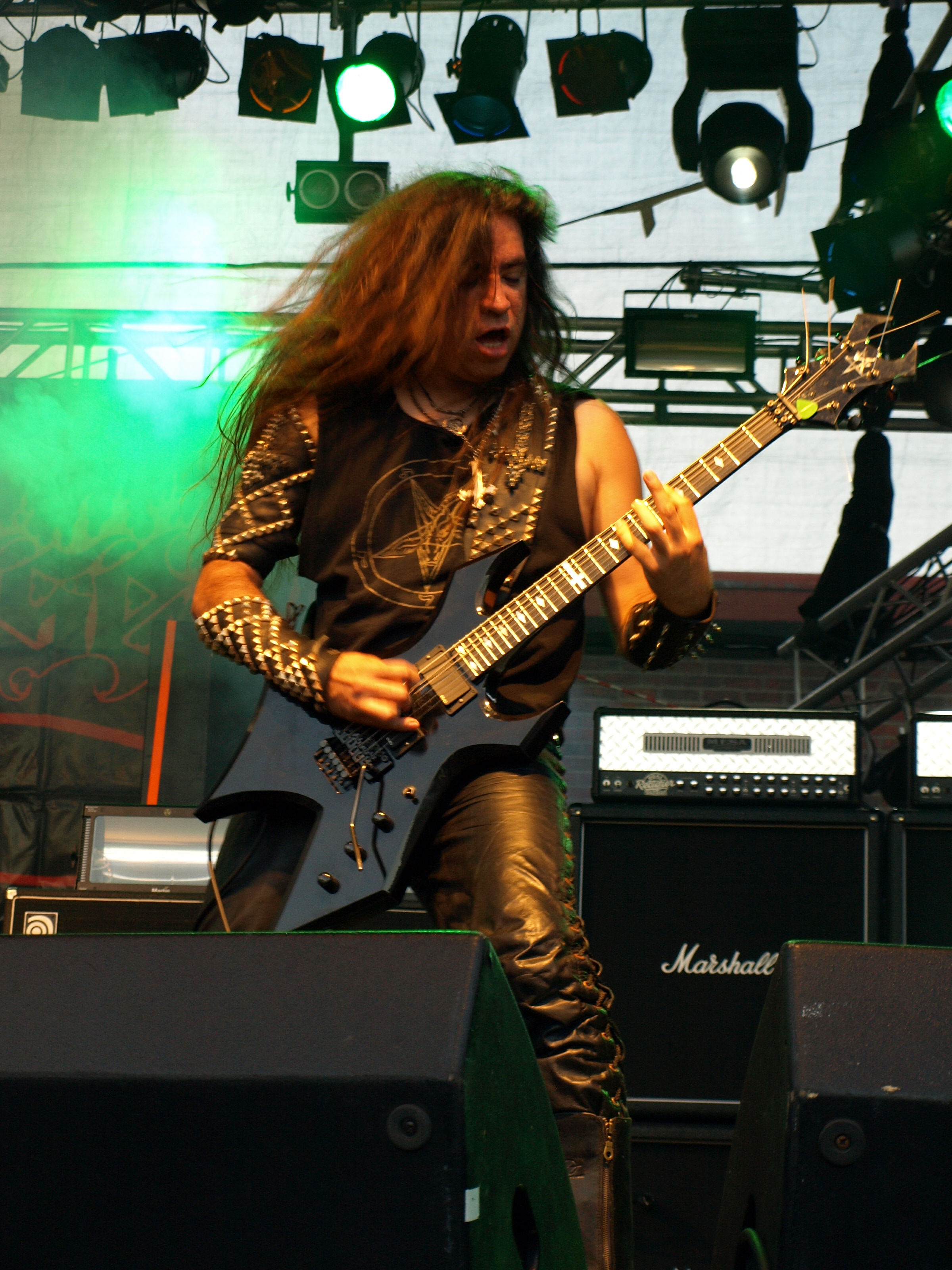 American death metal band Possessed live at Jalometalli 2008 in Oulu.